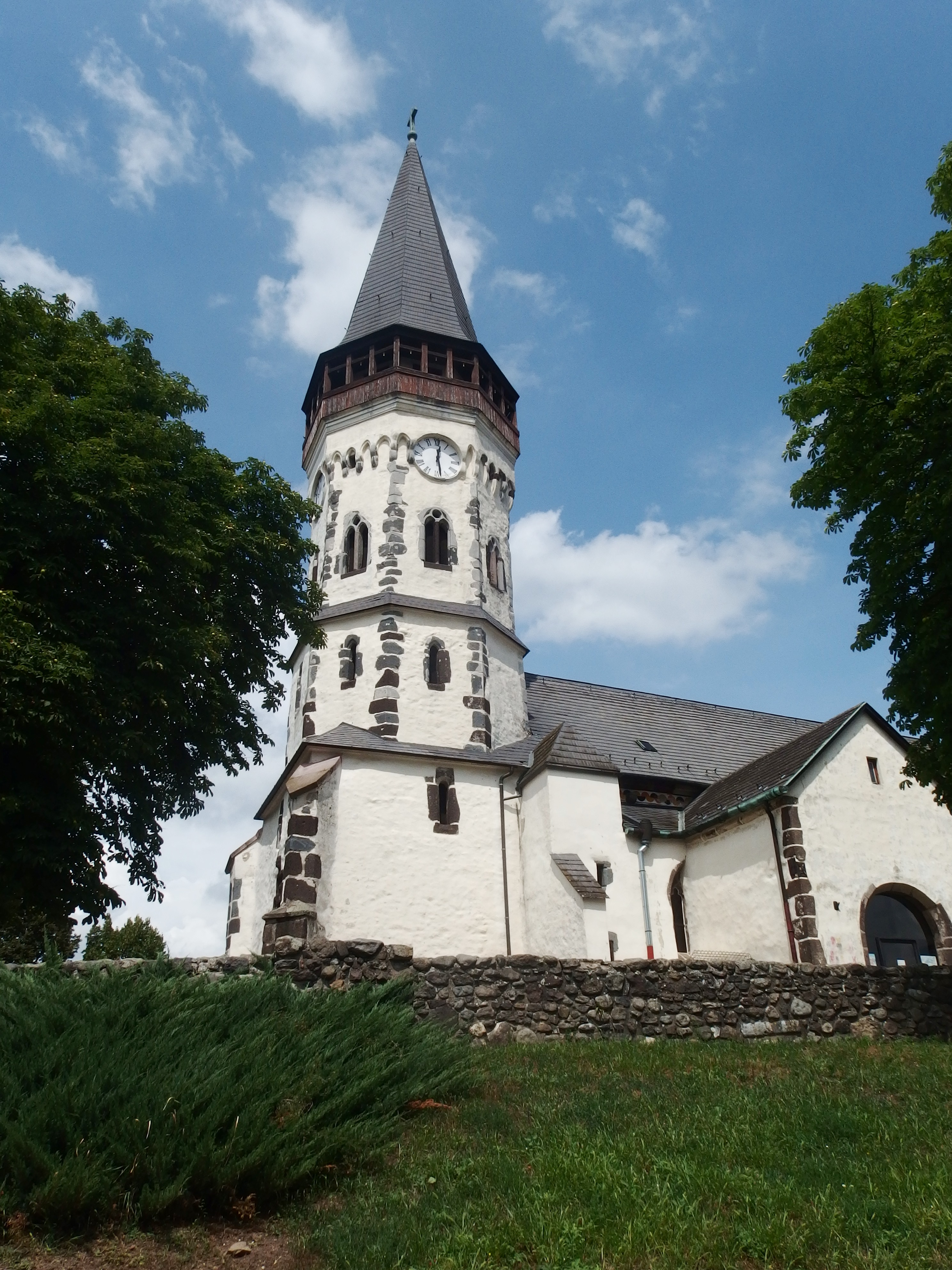 Gyöngyöspata, Hungary.